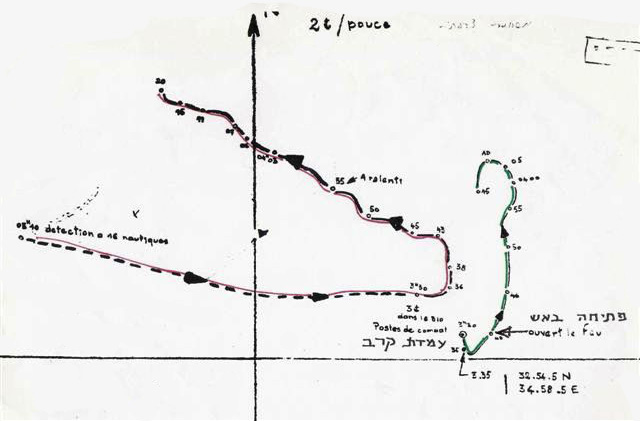 The path of Egyptian destroyer Ibrahim El-Awal and Escorter d'Escadre Kersaint in the battle of Haifa 31/10/1956